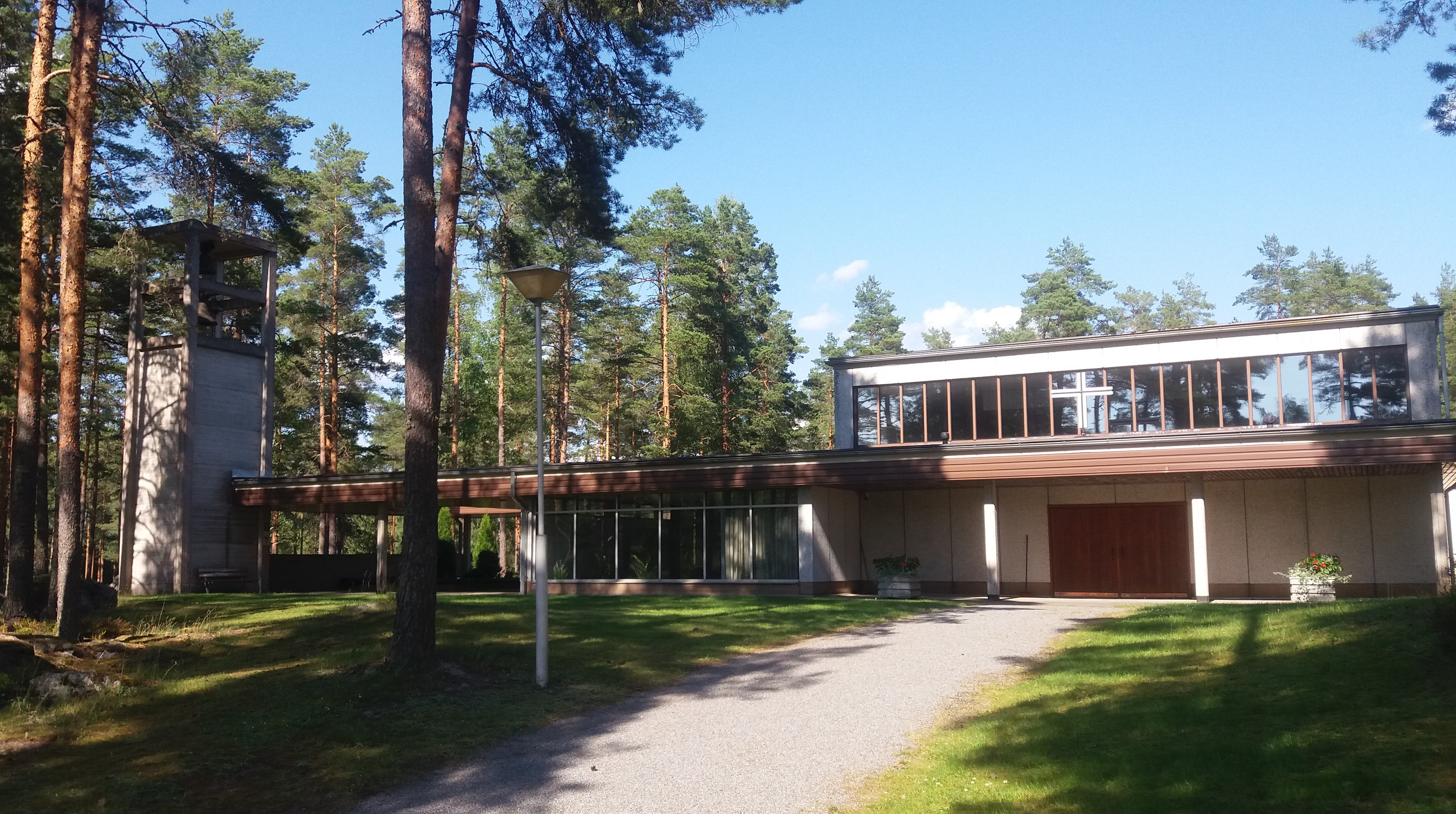 The 1976 built chapel in the Tyrvää Chapel Cemetery, Sastamala, Finland. Architect Mirjam Kulmala.